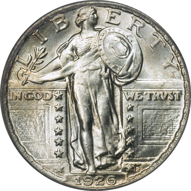 The modified Type 2 obverse of the Standing Liberty quarter dollar. From 1917-1924 the obverse design had a raised date notorious for rubbing off quickly when circulated. The design was modified slightly in 1925 so that the date was set deeper in the design and would wear less. This modified date design was used on coins minted from 1925 through the end of the series in 1930. This coin was minted at the Philadelphia Mint, and thus bears no mint mark. This coin is graded as MS64 by PCGS, and it received the "FH" or full-head designation, as the head of Miss Liberty is fully struck and exhibits a full hair line and the hole of the ear is visible.